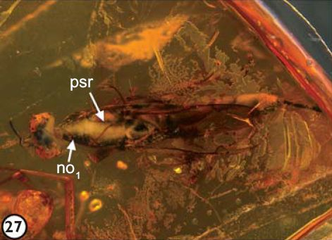 Holotype female of Metapelma archetypon, dorsal habitus.